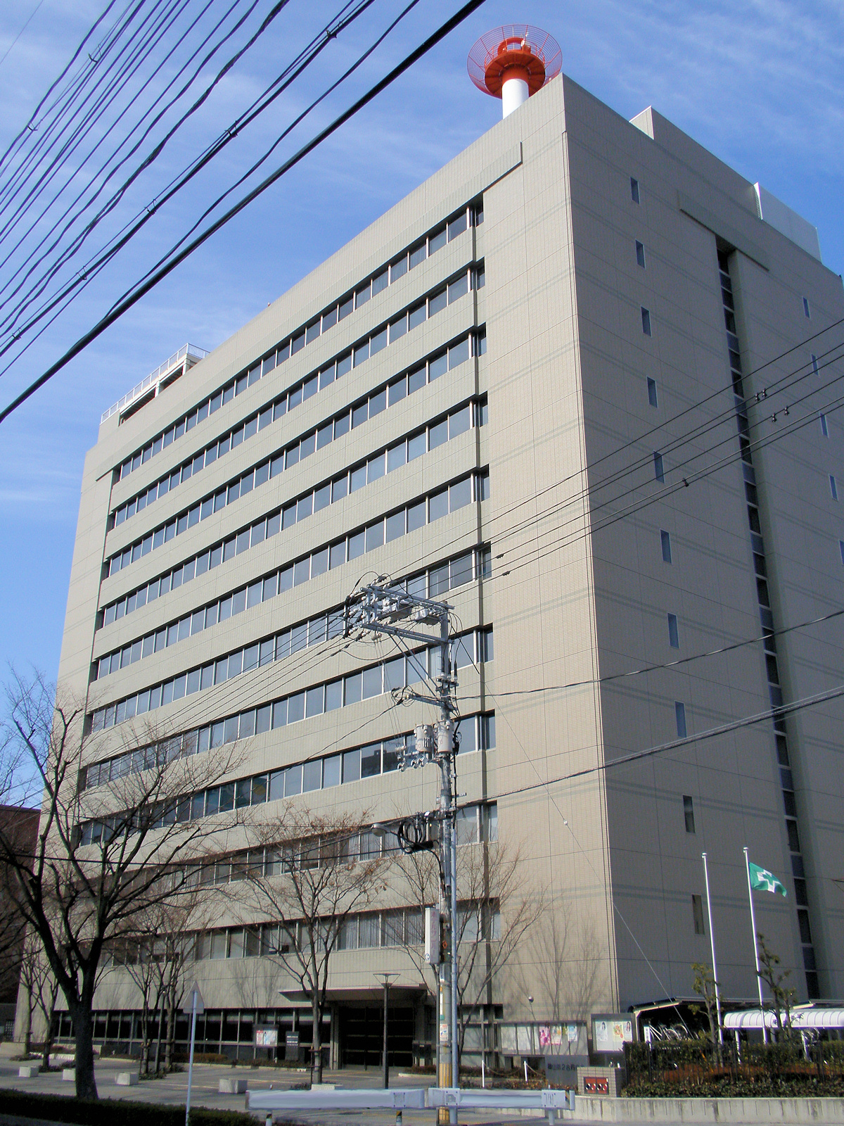 Okayama second joint government building Chugoku-Shikoku Regional Agricultural Administration Office Chugoku-Shikoku Regional Environmental Office Okayama Labour Bureau Japan Self Defense Force Okayama Provincial Cooperation Office Hiroshima Regional Immigration Bureau Okayama Branch Chugoku-Shikoku Regional Bureau of Health and Welfare Okayama Office